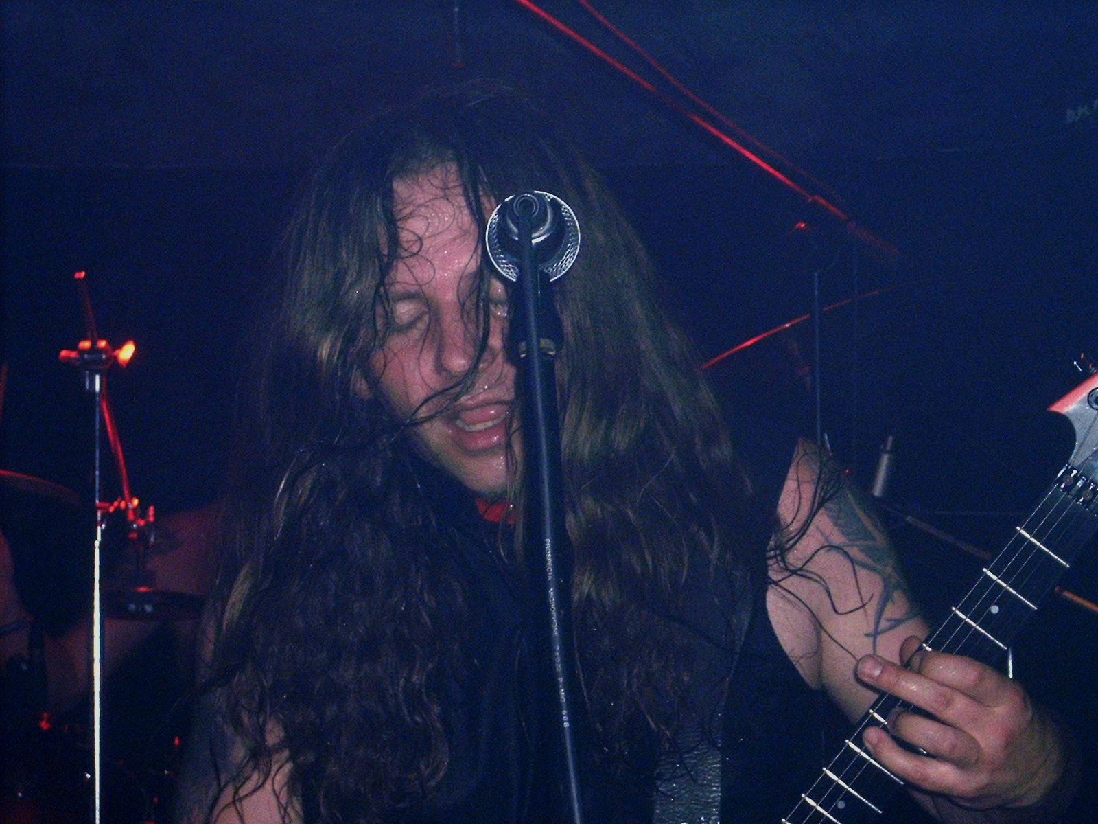 Piotr "Peter" Wiwczarek from polish death metal band Vader playing live on tour in Poland